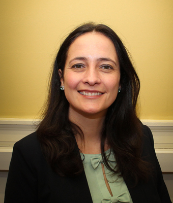 Official Houses of the Oireachtas photograph of Catherin Martin TD.